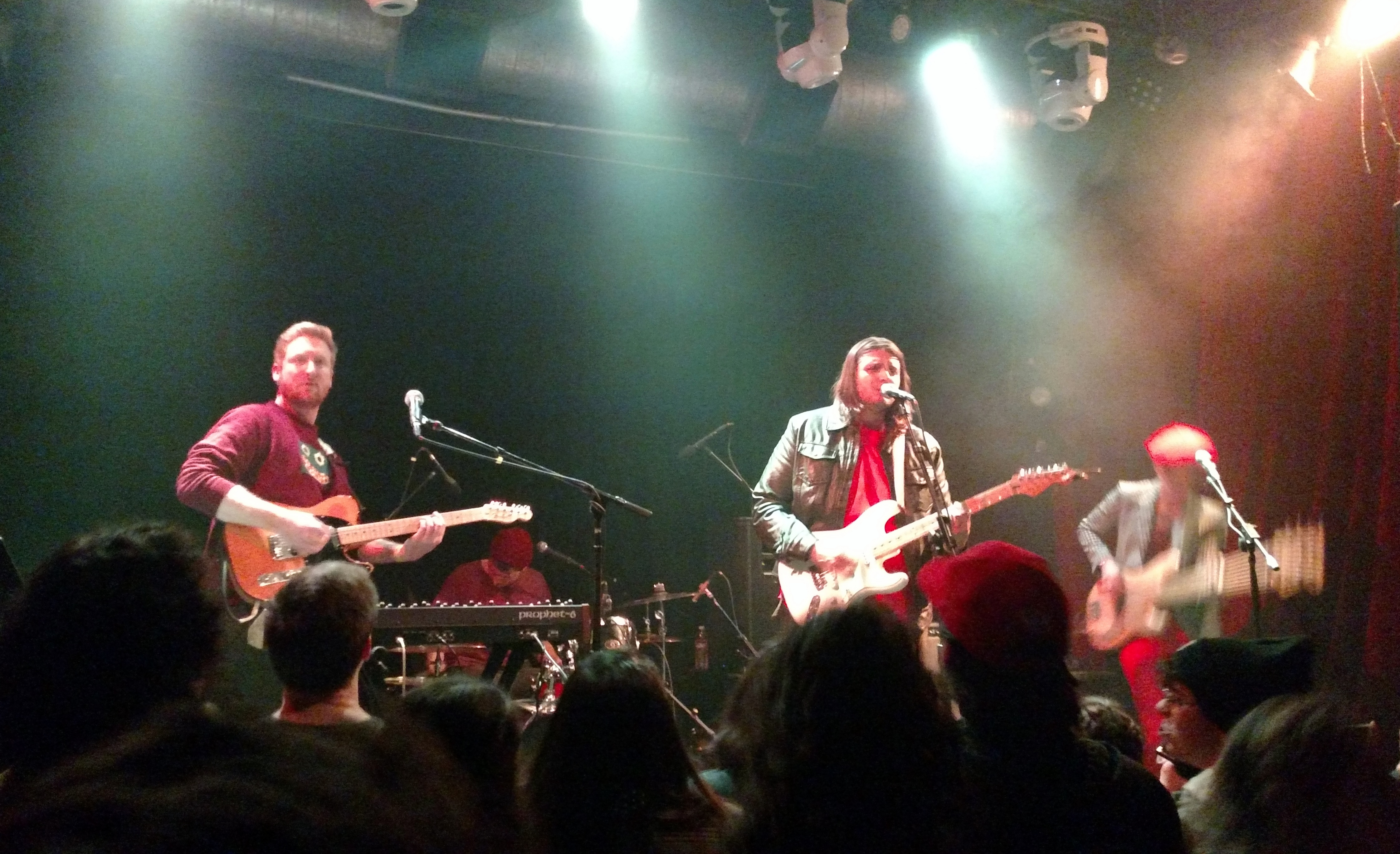 Miniature Tigers performing at the Rickshaw Stop in San Francisco in January 2020. From left to right: Ryan Breen, Rick Alvin Schaier, Charlie Brand, and Brandon Lee.